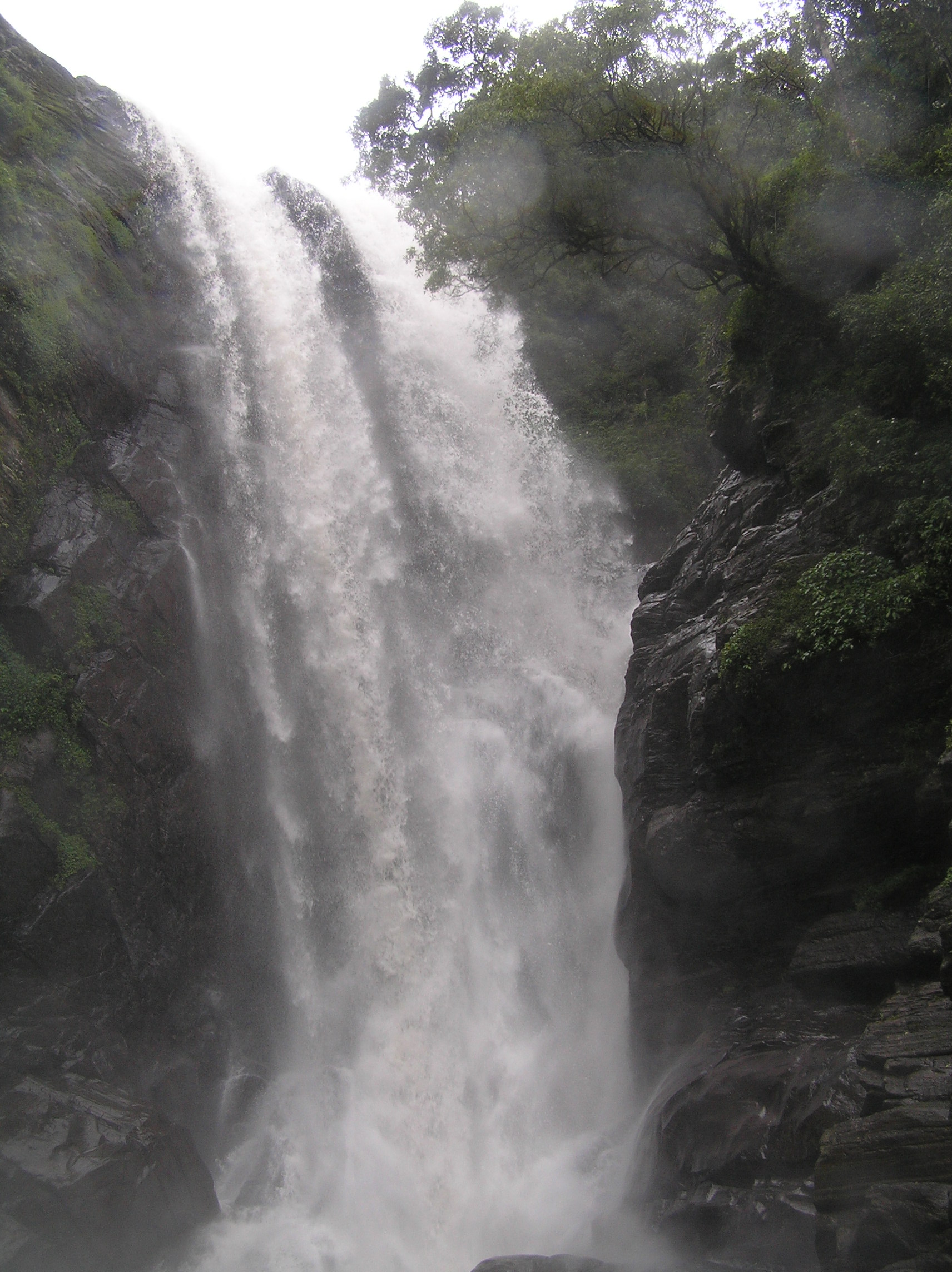 Depicted place: Elgin Falls